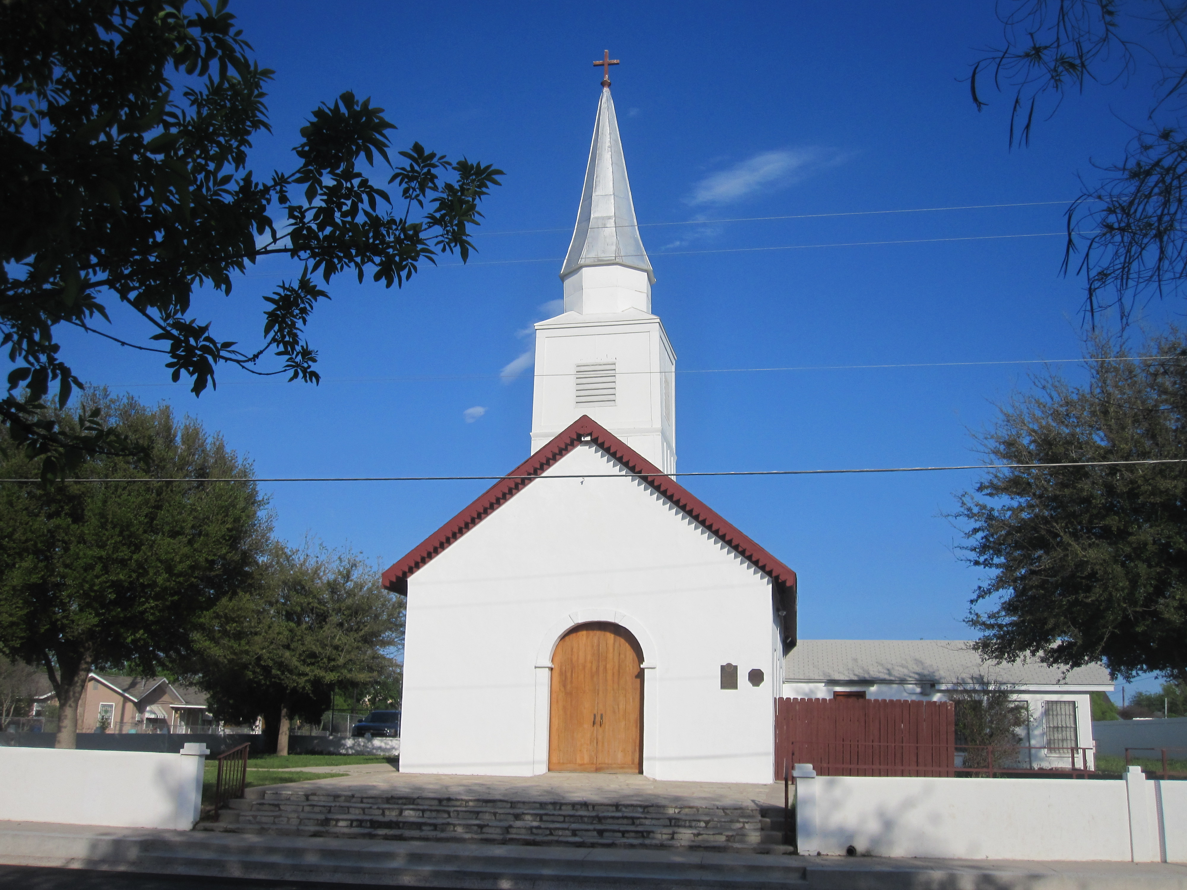 I took picture with Canon camera.